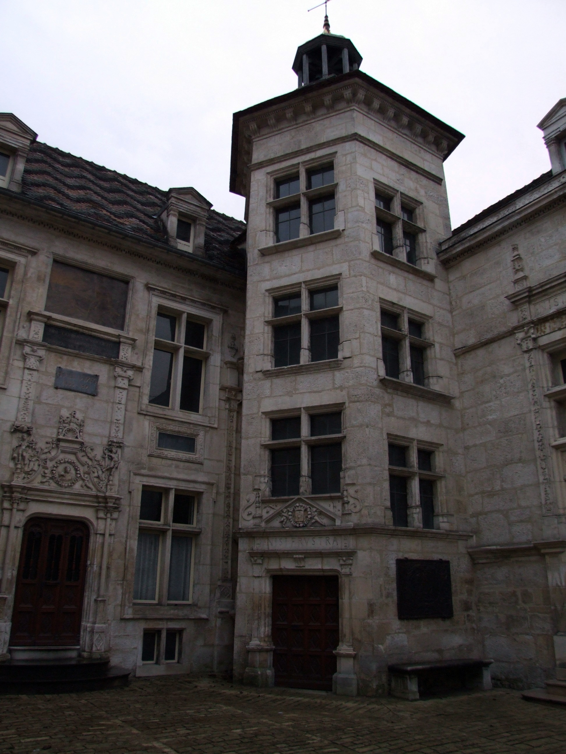 Tonnerre, Burgundy, FRANCE